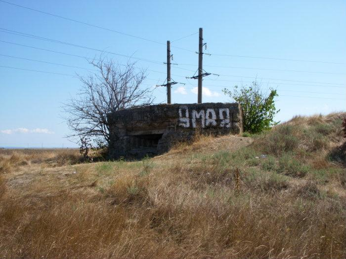 Pillbox in Chernihivka, Kherson Oblast, Ukraine